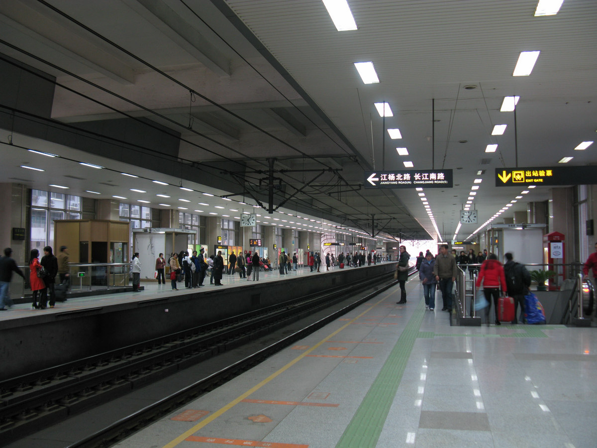 Line 3 Platform of Dongbaoxing Road Station, Shanghai Metro